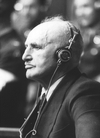 Julius Streicher at the Nuremberg Trials. From the National Archives.